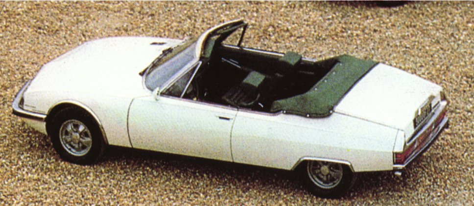 Citroen SM Mylord